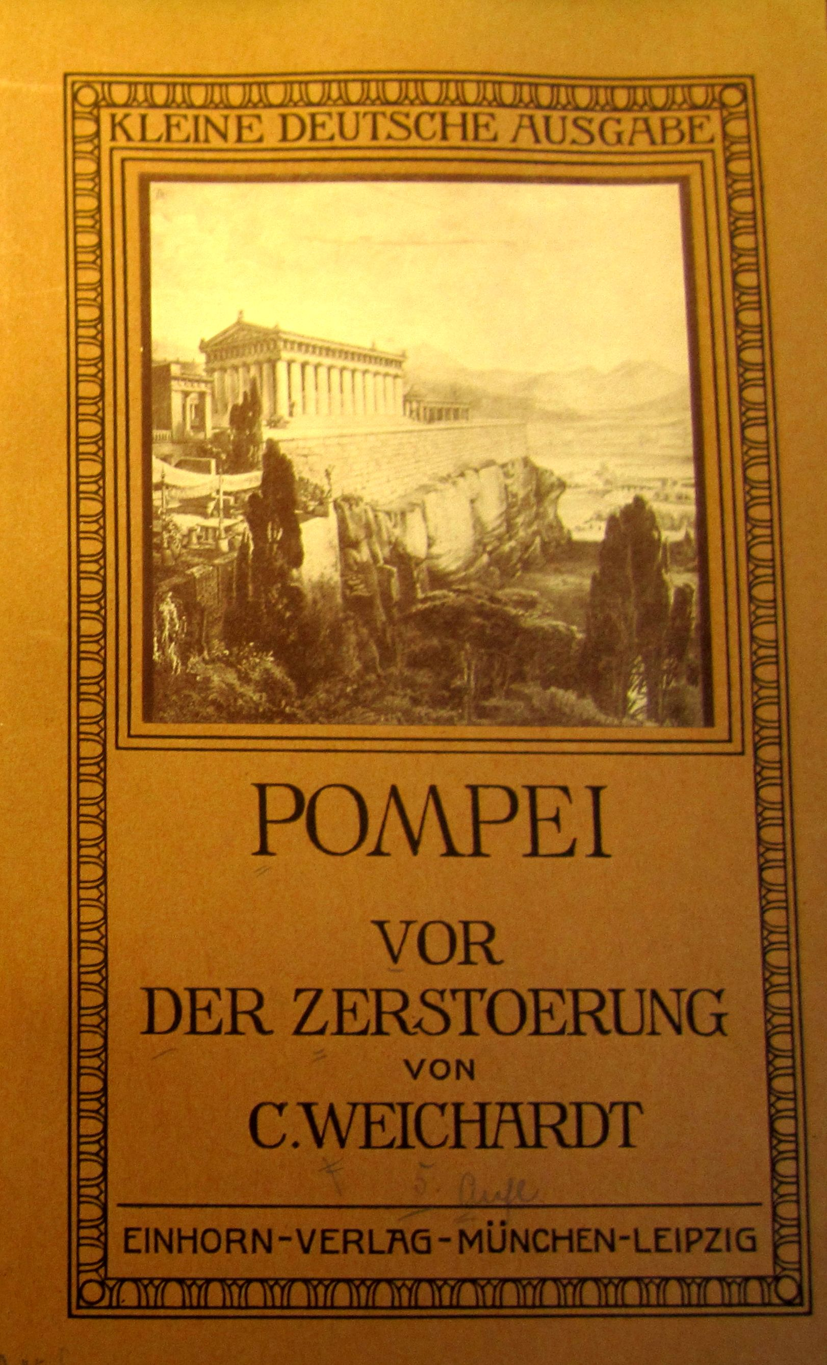 Title of book "Pompei vor der Zerstörung" by Carl Weichardt